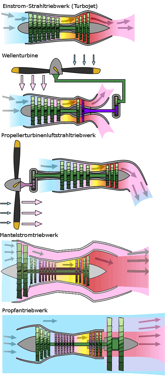 A schematic showing several types of jet engines.